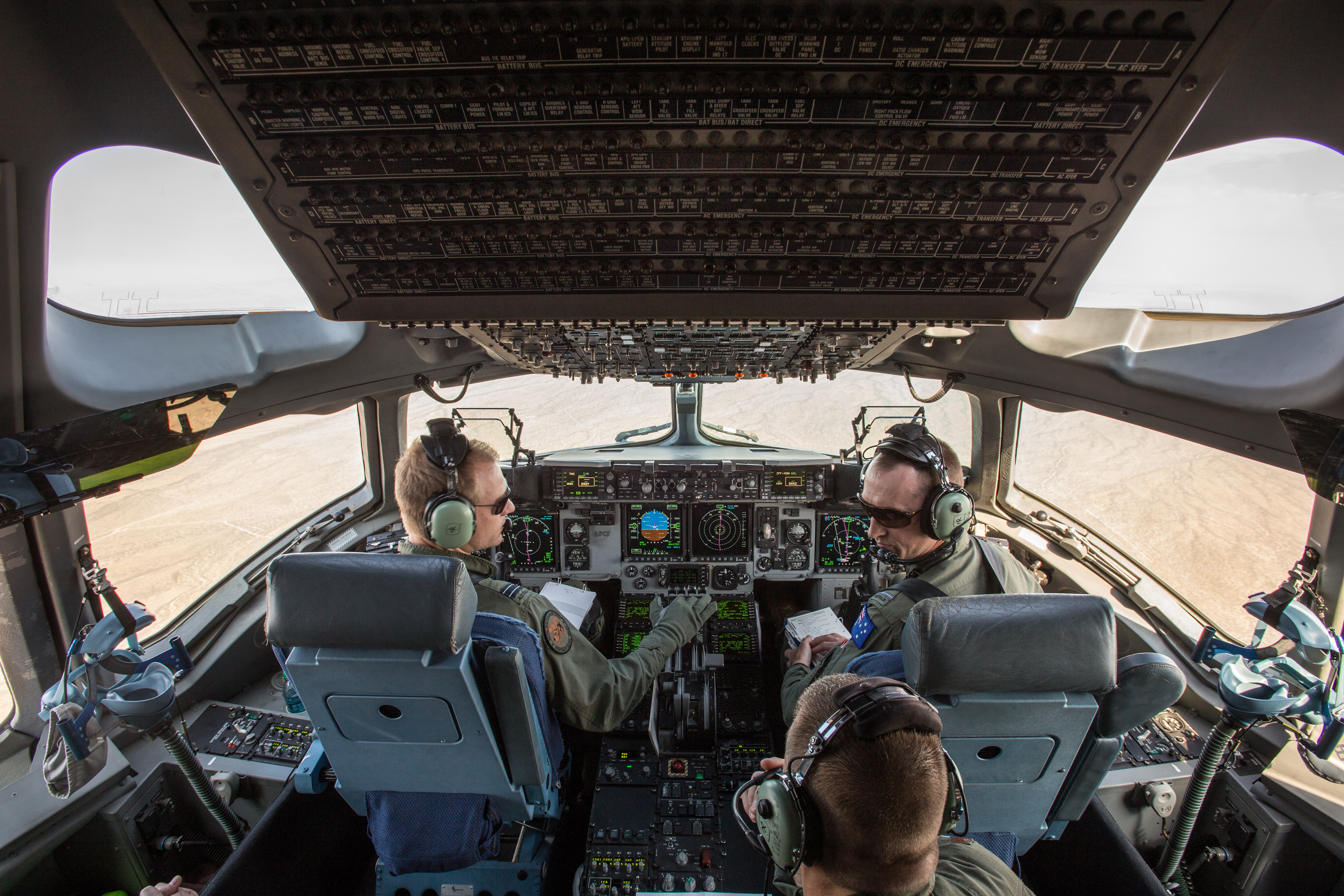 Royal Australian Air Force C-17 Globemaster III aircrew students with No. 36 Squadron (36 SQN), are observed by United States Air Force instructors with the Advanced Airlift Tactical Training Center (AATTC) during a training mission, near Fort Huachuca, Ariz., June 17, 2014. Aircrew members from the 36 SQN are participating in a two-week course hosted by the AATTC attached to the 139th Airlift Wing, Missouri Air National Guard. (U.S. Air Force photo by Senior Airman Patrick P. Evenson/Released)